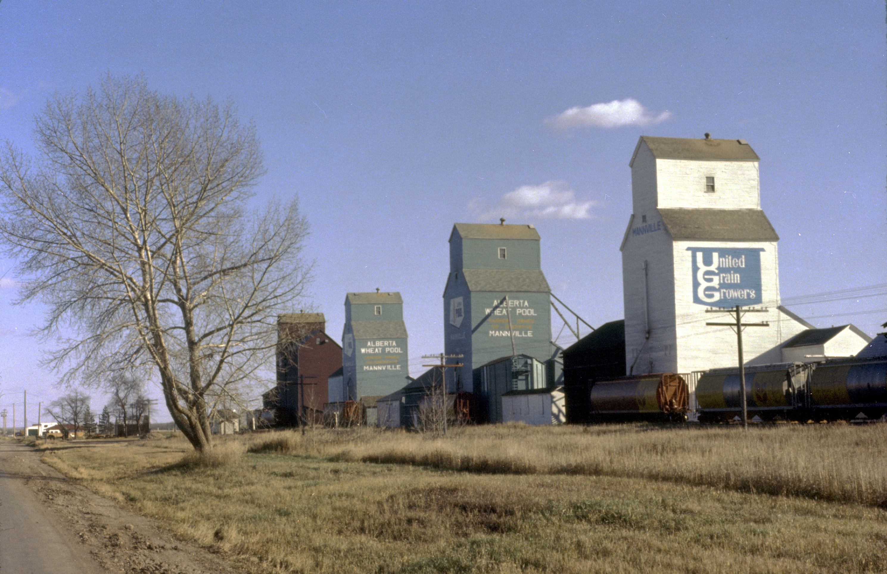 United Grain Growers and Alberta Wheat Pool grain elevators, with train cars in front, in Mannville, Alberta.